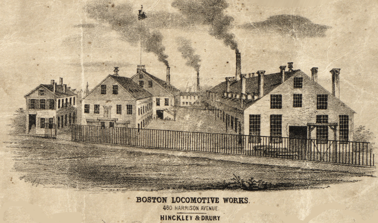 An inset drawing of Boston Locomotive Works from an 1852 map of Boston and surrounding neighborhoods